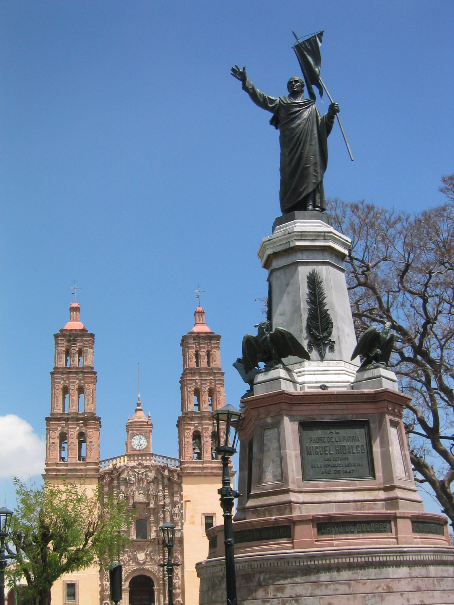 Photo taken March 2004 by Paige Morrison. (That's me.)